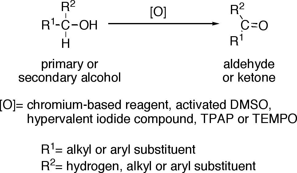 Oxidation of Alcohols to Aldehydes or Ketones